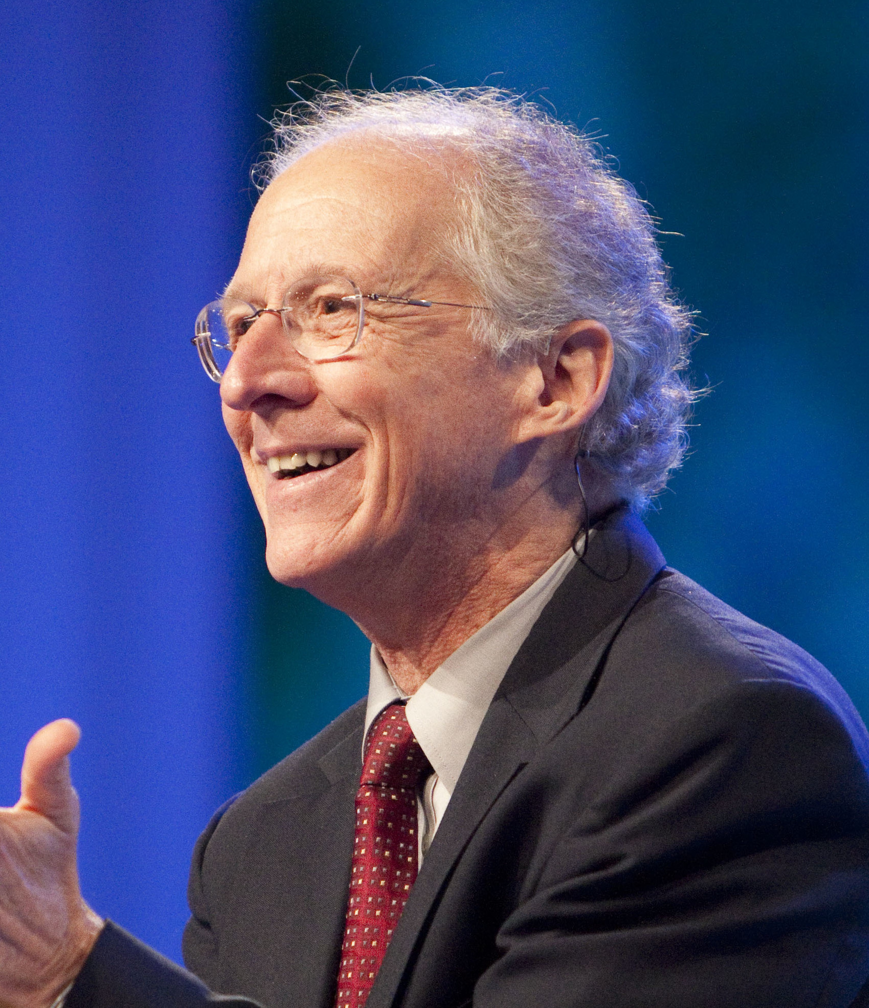 Photo of John Piper, theologian, preaching from a pulpit